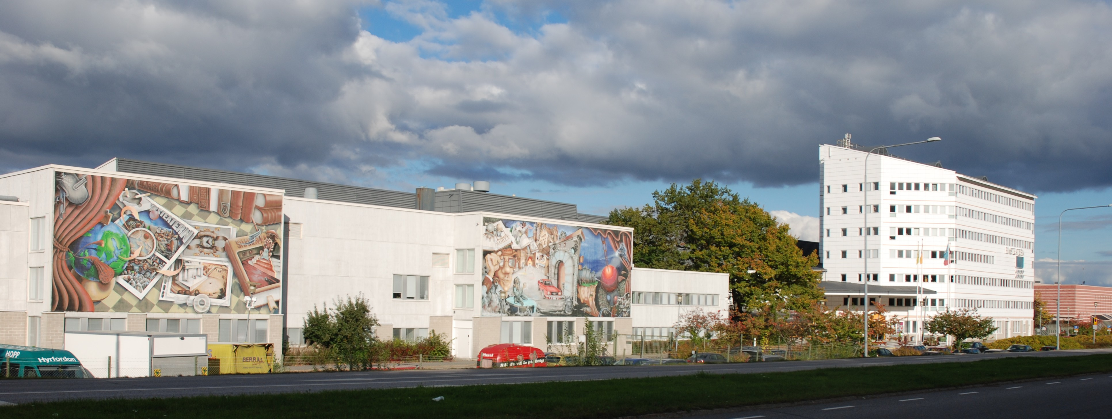 The Riksteatern House in Hallunda, Botkyrka, Sweden